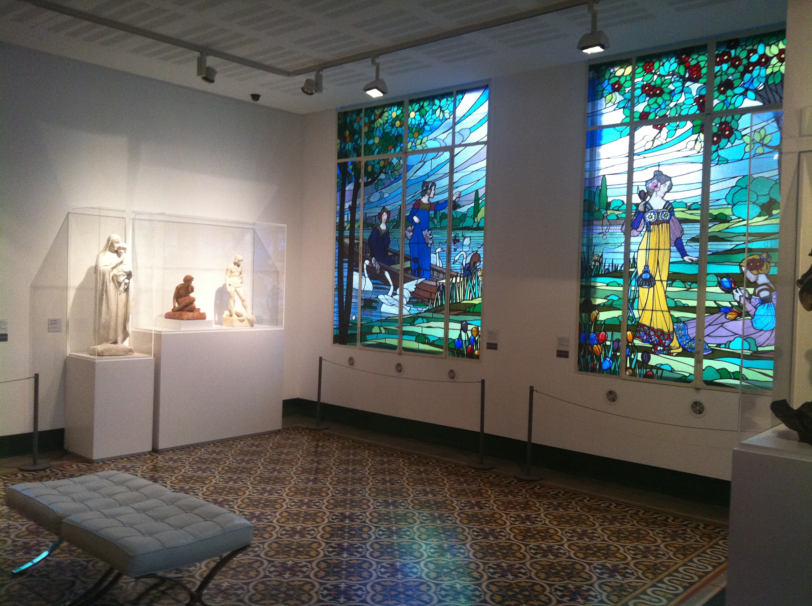 Exhibit rooms in the Museu d'Art de Cerdanyola